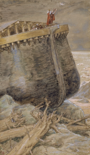 The Dove Returns to Noah, c. 1896-1902, by James Jacques Joseph Tissot (French, 1836-1902), gouache on board, 7 13/16 x 4 7/16 in. (19.9 x 11.3 cm), at the Jewish Museum, New York